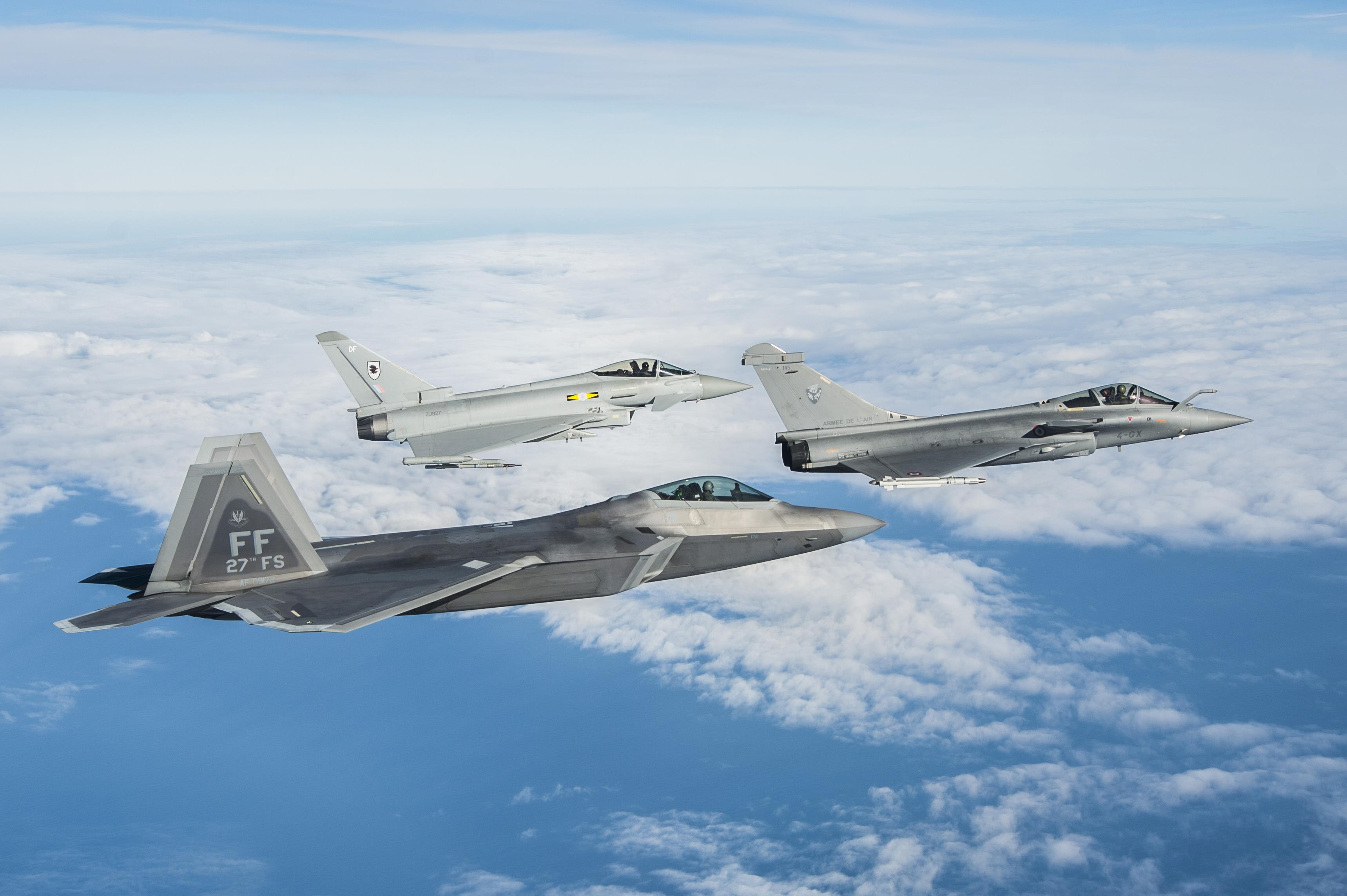 An F-22 Raptor, Royal Air Force Typhoon FGR4 and French air force Rafale fly in formation as part of a trilateral exercise held at Joint Base Langley-Eustis, Va., Dec. 7, 2015. The exercise simulates a highly contested, degraded and operationally limited environment where U.S. and partner pilots and ground crews can test their readiness.